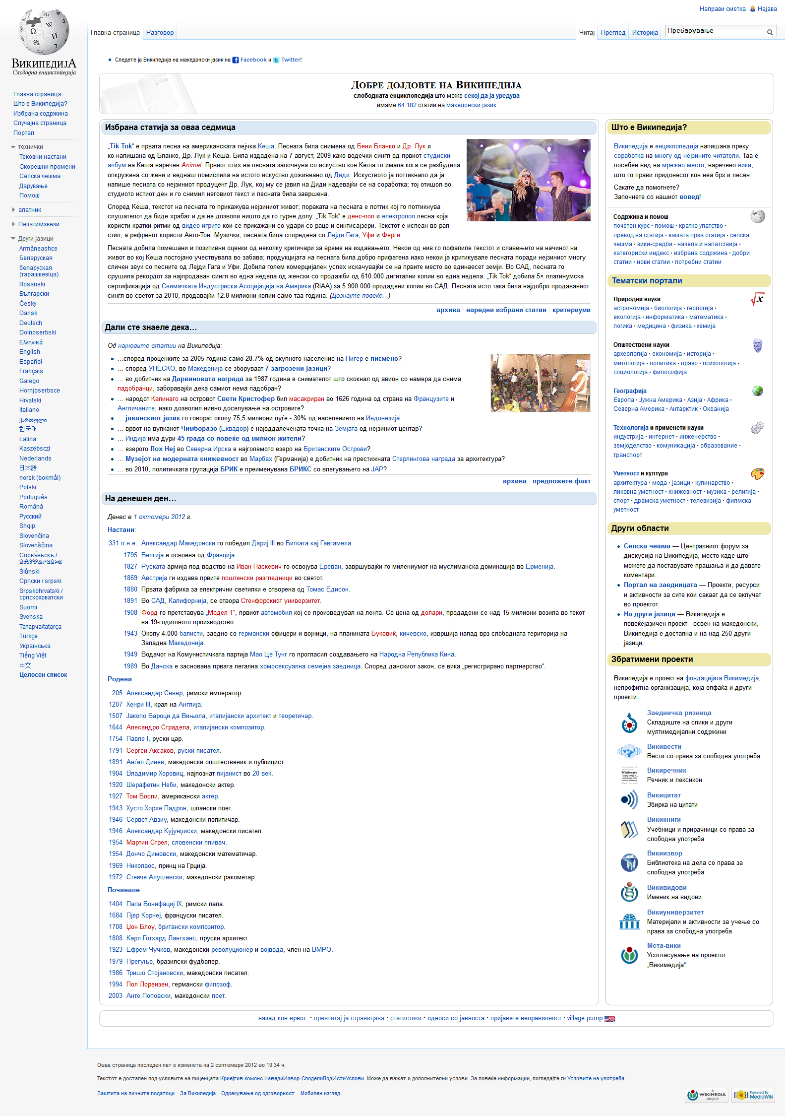 Screenshot of the Macedonian Wikipedia's main page, taken on October 1st, 2012 with the FireShot add-on for Firefox